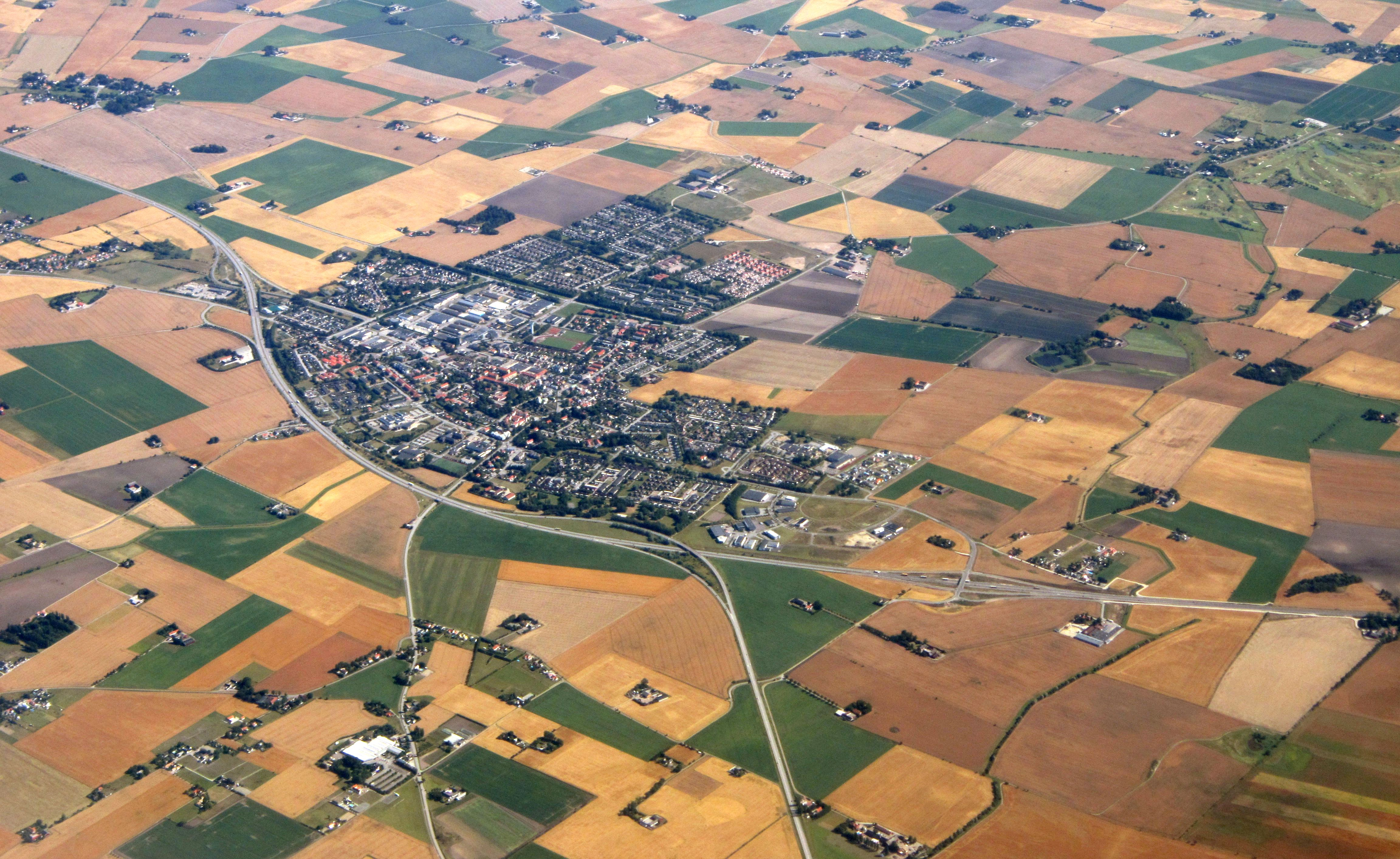 Vellinge (aerial view)